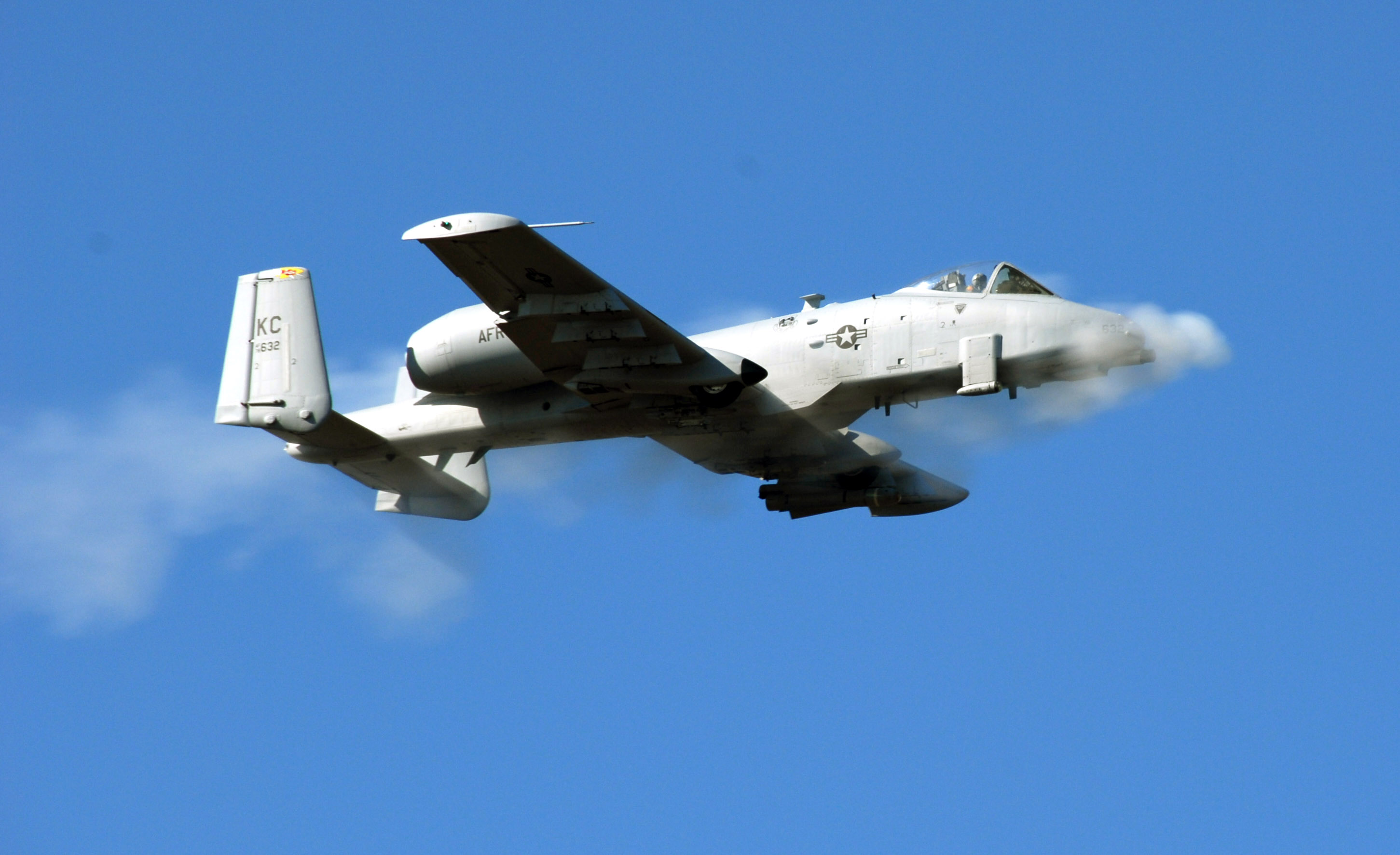 An A-10 Thunderbolt II pilot from the Air Force Reserve Command's 442nd Fighter Wing based at Whiteman Air Force Base, Mo., fires the plane's 30-mm cannon toward a target at the Smoky Hill Range near Salina, Kan., Oct. 16. Fourteen A-10 units from across the Air Force are competing in Hawgsmoke 2008, a biennial A-10 bombing and aerial gunnery competition, this year hosted by the 442nd FW.